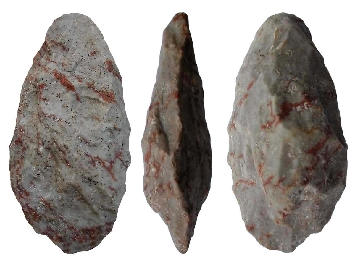 Acheulean elliptic shaped hand axe —roughly eroded— that proceeds from a superficial site in the Valladolid province (Spain), in the valley of Douro river